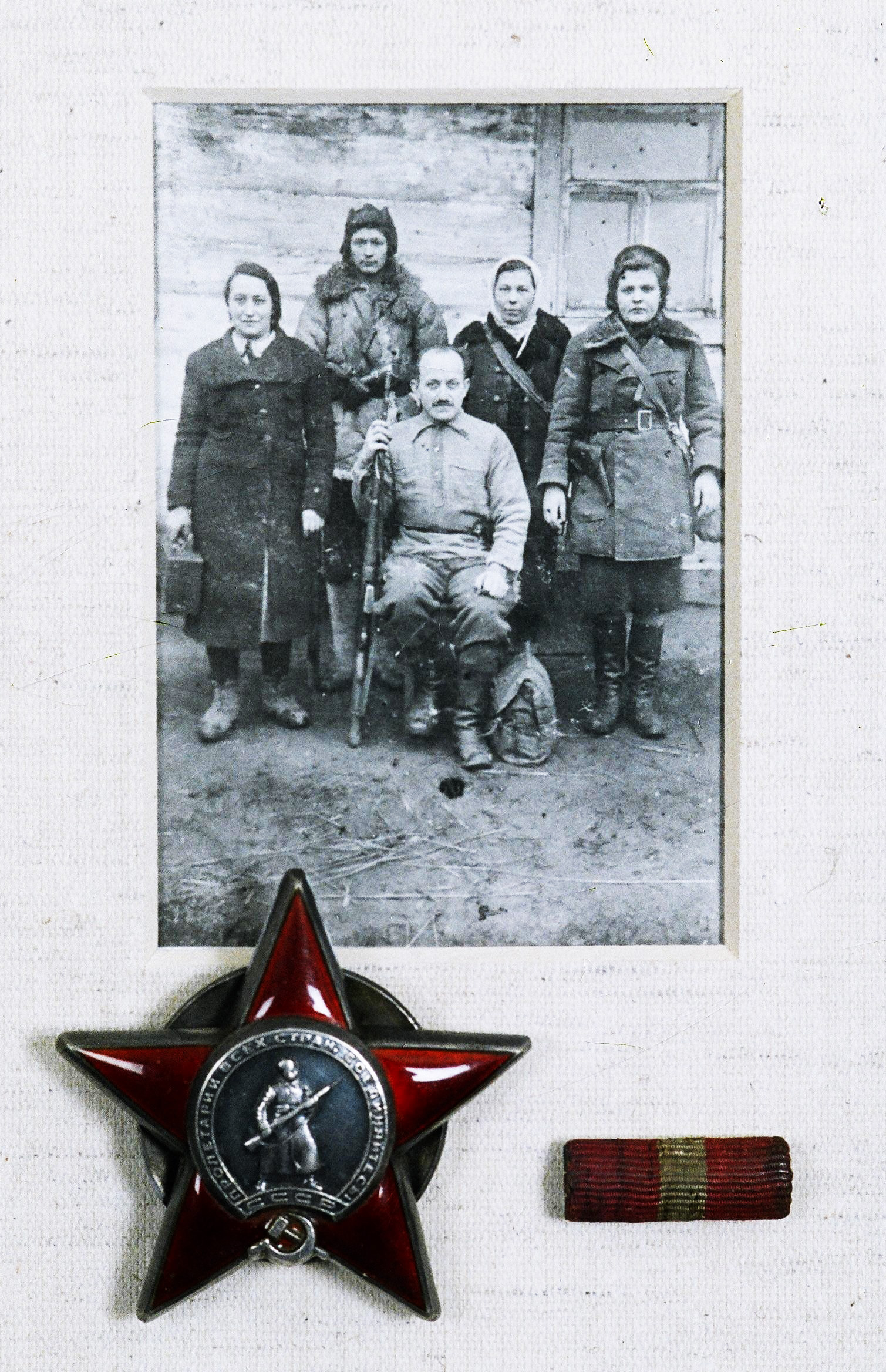 פנחס וגניה צ'רניאק בפרטיזנים, והעיטור הרוסי שהוענק לו